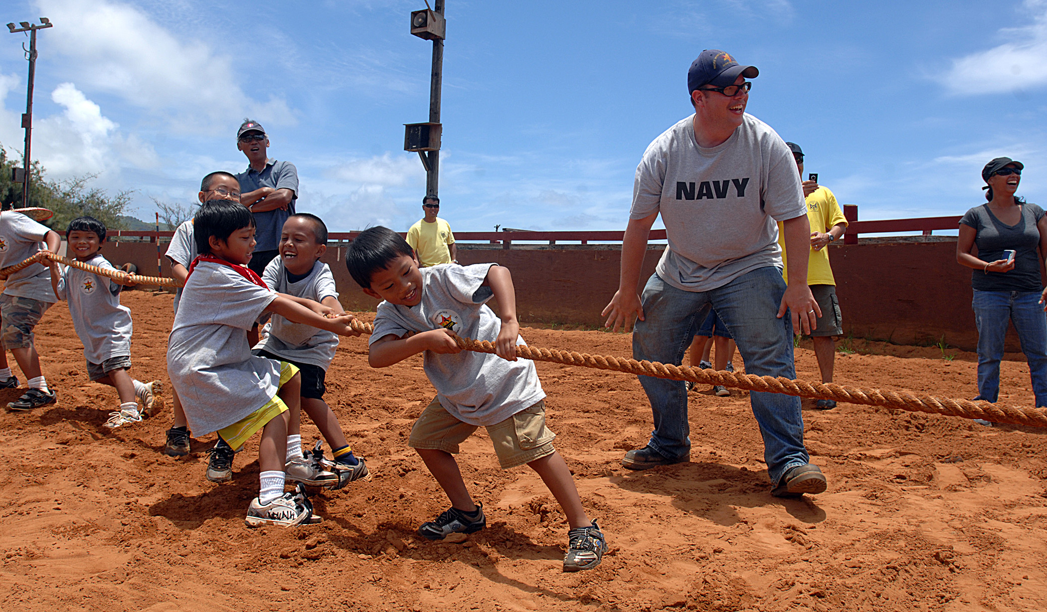 POIPU, Hawaii (June 11, 2011) Hull Maintenance Technician 2nd Class Rob Leedham motivates cub scouts during a tug-of-war. A dozen Sailors from the Pacific Missile Range Facility on Kauai created an obstacle course to support Cub Scouts from the Boy Scouts of America, Aloha Chapter, Kauai, during their annual Cub Scout Day Camp at CJM Stables. (U.S. Navy photo by Mass Communication Specialist 1st Class Jay C. Pugh/Released)